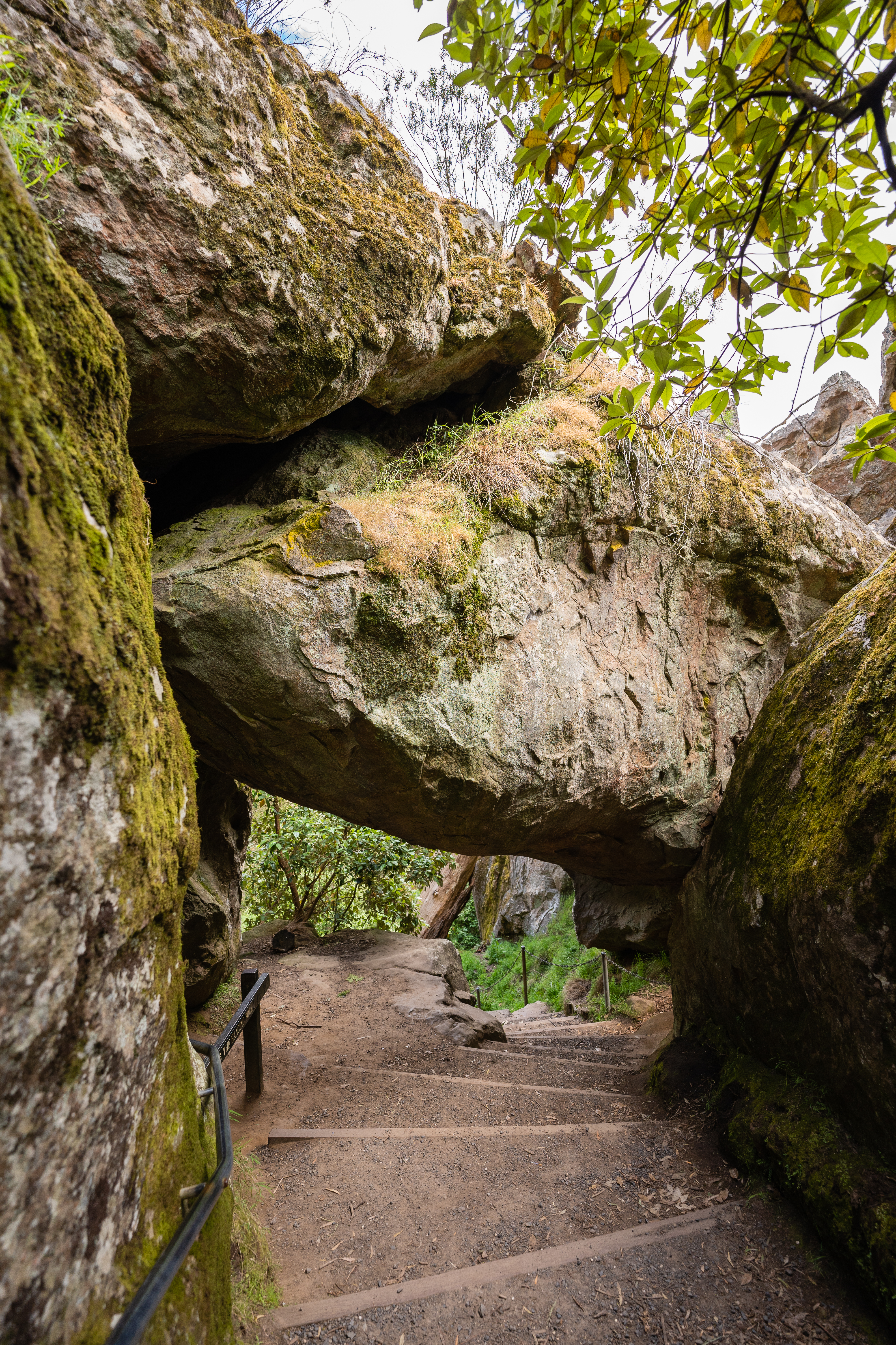 The 'Hanging Rock', a boulder suspended over the stairway that leads to the summit that gives the peak as a whole its name, Hanging Rock (formally Mt Diogenes). Note the sign next to the path at the lower left of the frame.